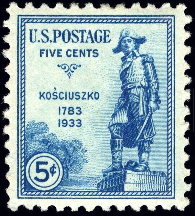 US Postage stamp depicting General Tadeusz Kościuszko The United States government continued its practice of recognizing foreigners who aided American colonies in the American Revolultion when on October 13, 1933 it issued a blue 5-cent postage stamp honoring General Kosciuszko (1746-1817) of Poland. The stamp was issued on the 150th anniversary of Kosciusko's naturalization as an American citizen. The stamp depicts an engraving modeled after the statue of the uniformed general that sits in Lafayette Park in the Washington DC. Serving under George Washington Kosciusko fought in several key battles and is noted for his heroic efforts in the American Revolution. He is also widely known for his designing and engineering of the fortifications at West Point.